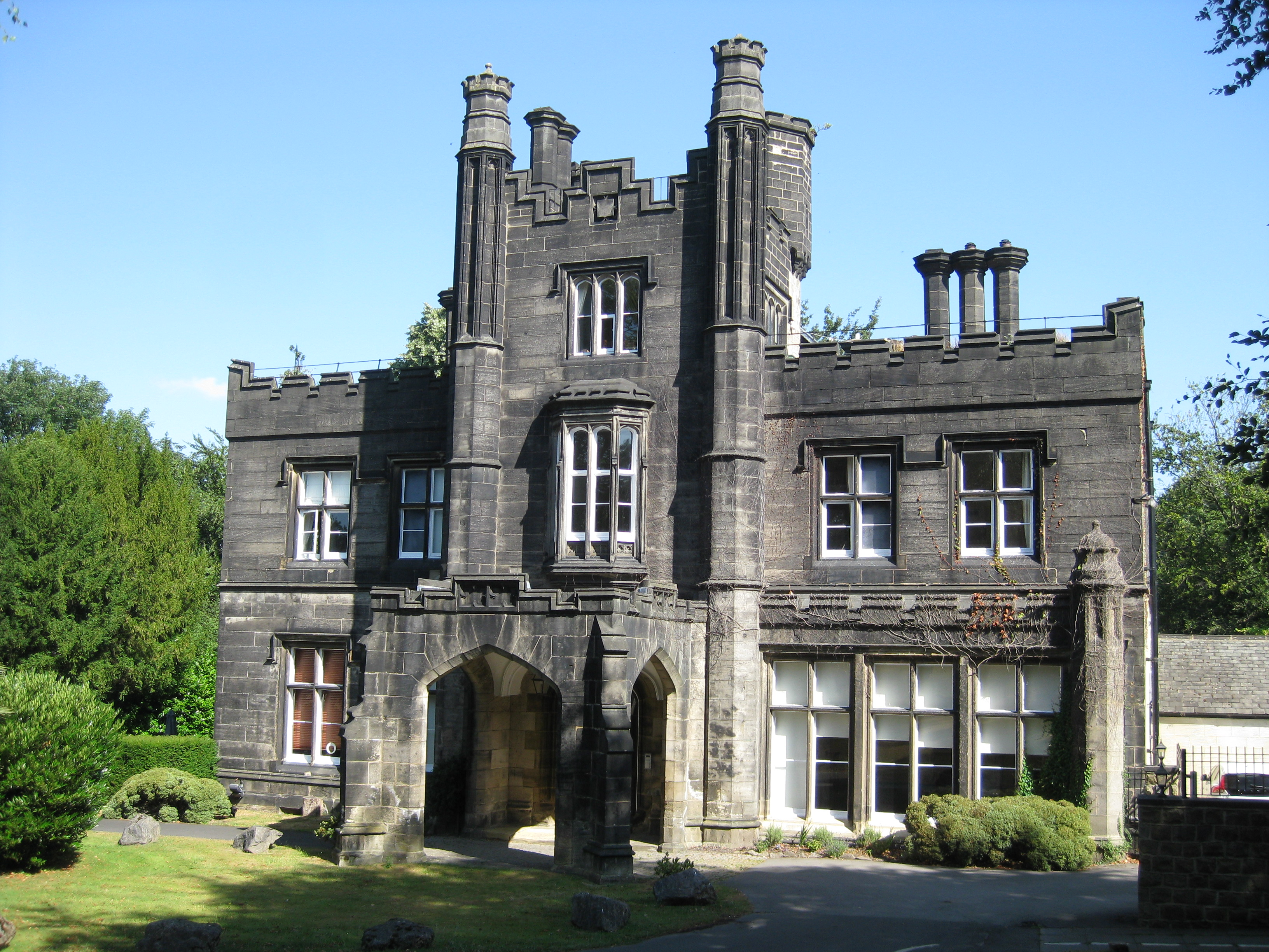 Headingley Castle. On private road off Headingley Lane.